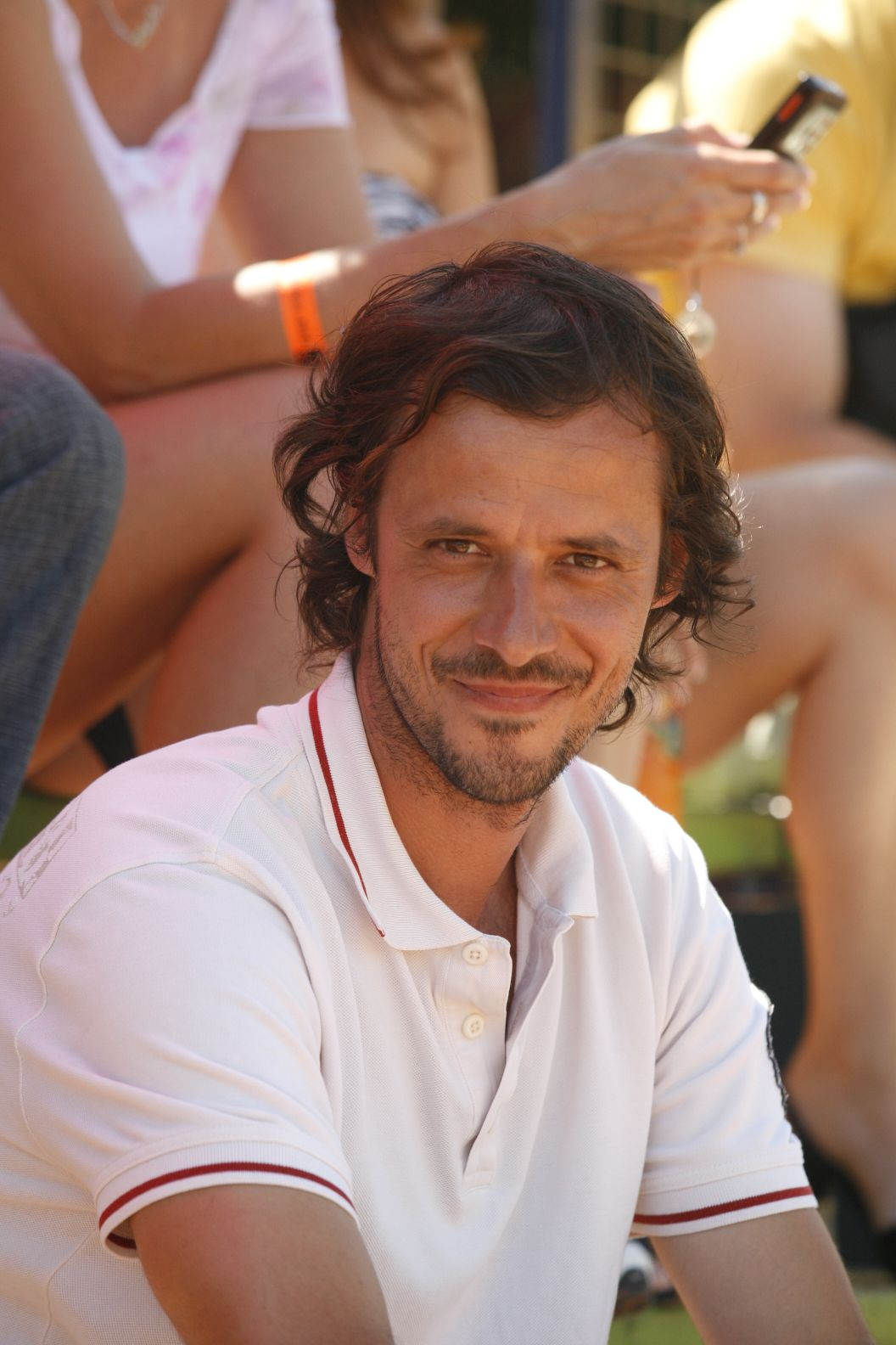 picture of Gergely Kisgyörgy